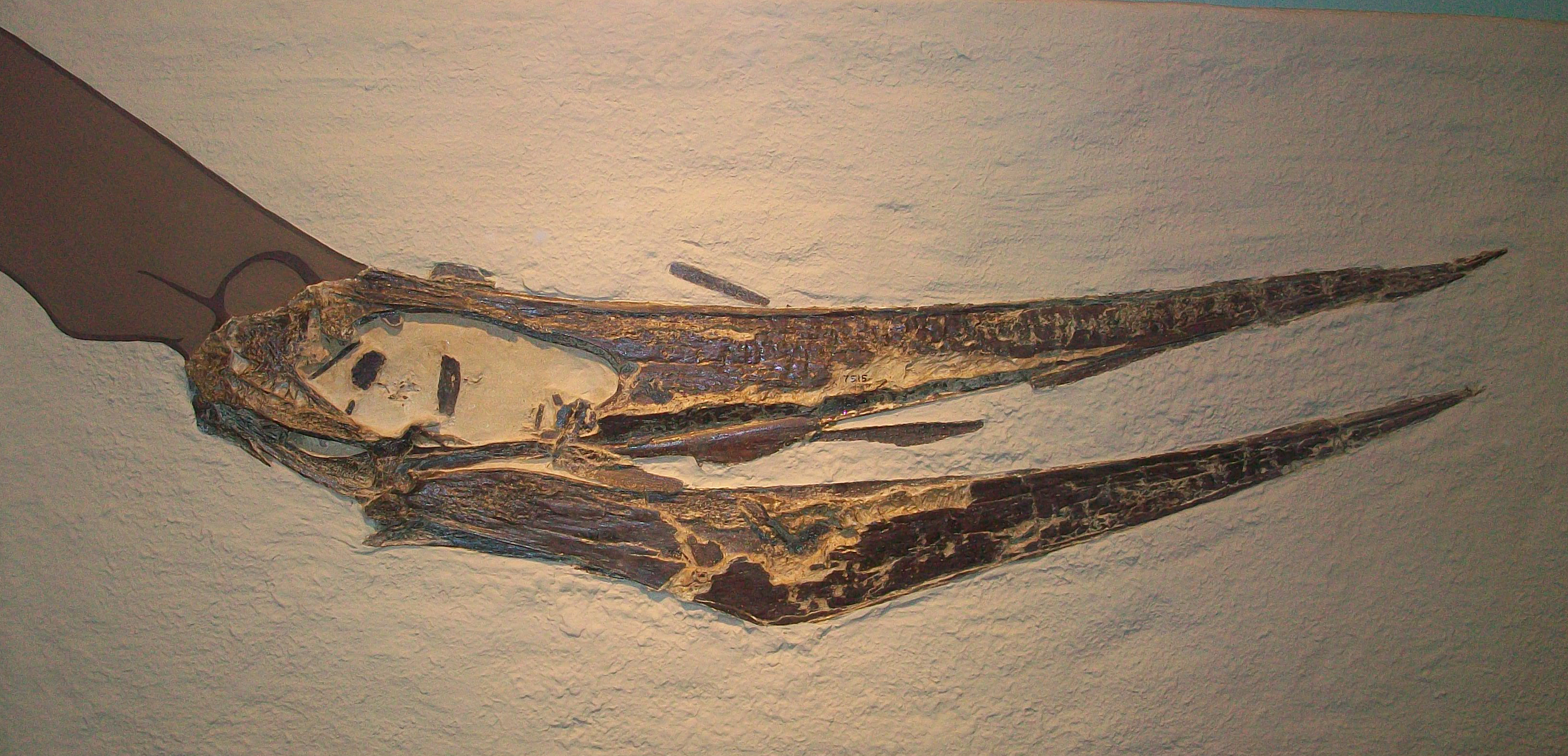 Skull of Pteranodon sp. (specimen AMNH 7515) in the American Museum of Natural History.